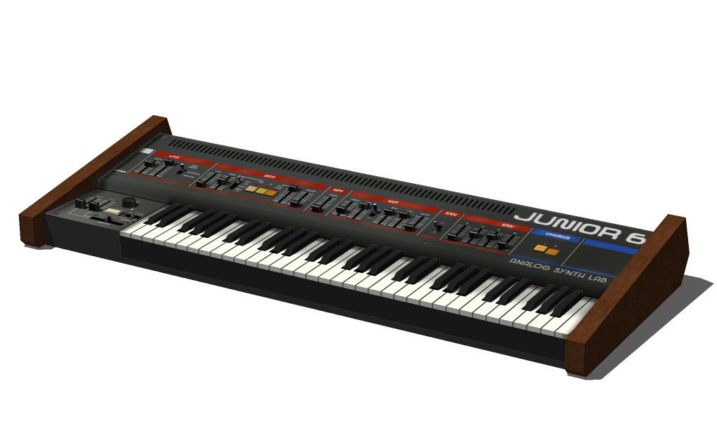 3d model of software synthesizer emulation of Roland Juno 6